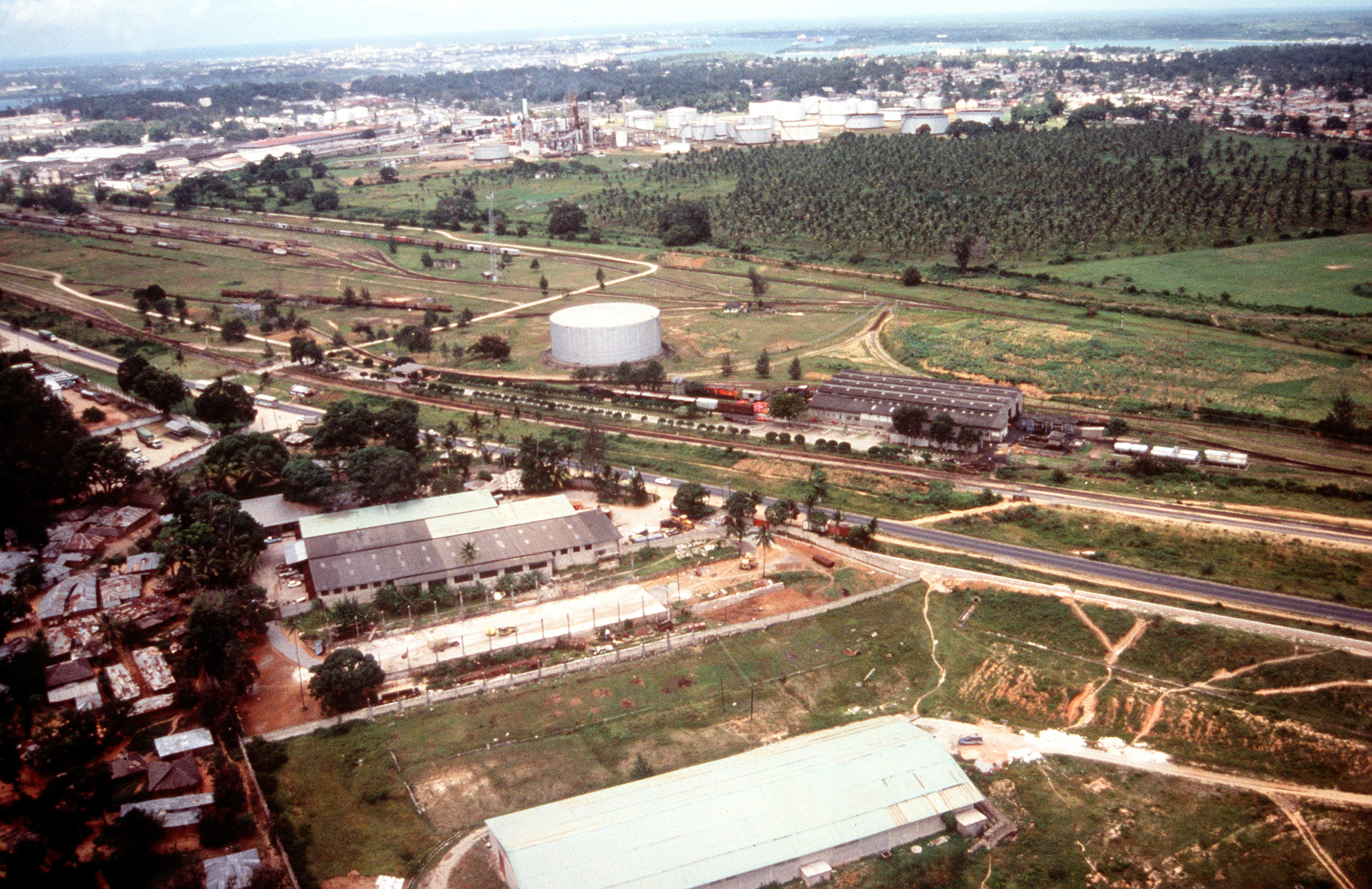 Aerial view around Moi International Airport showing industrial area. Rail yard is in the background.